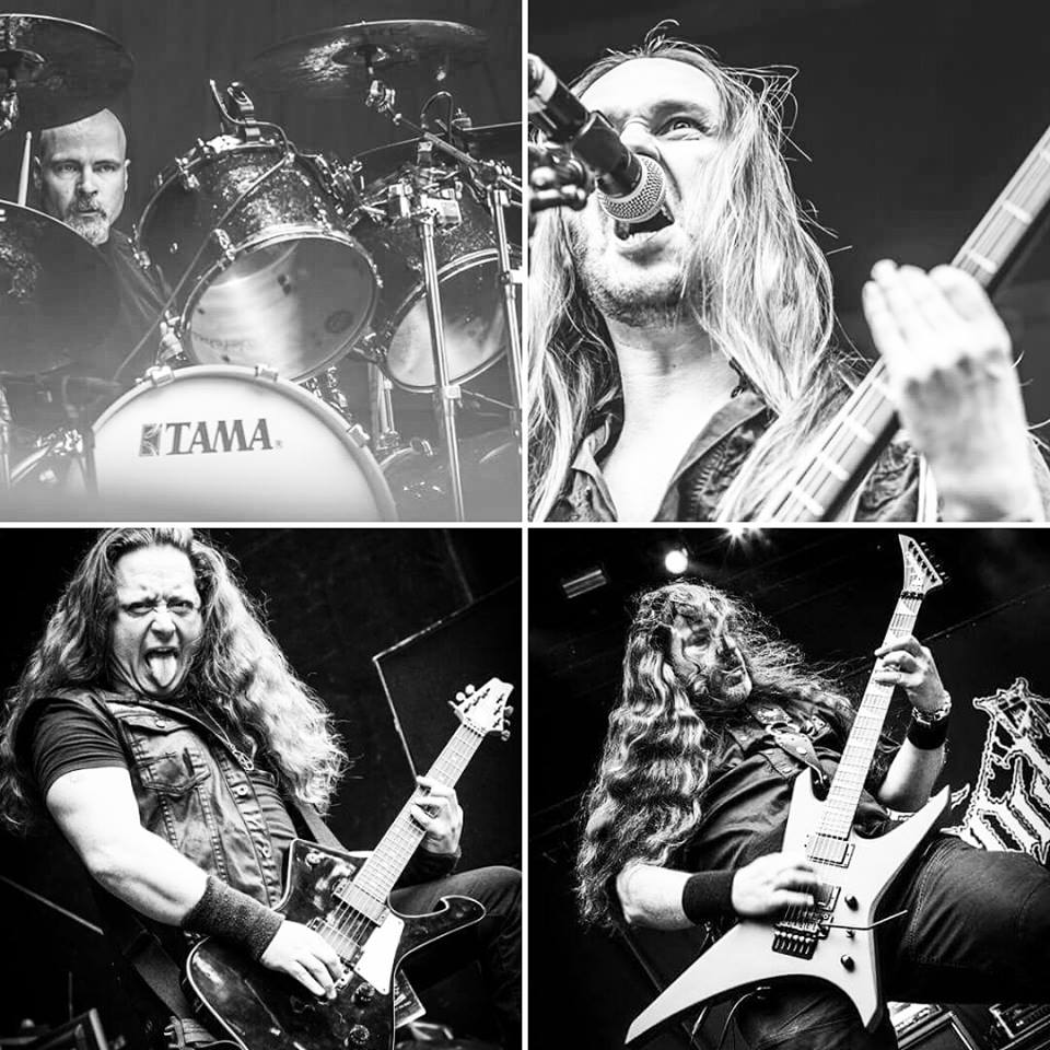 Soulburn